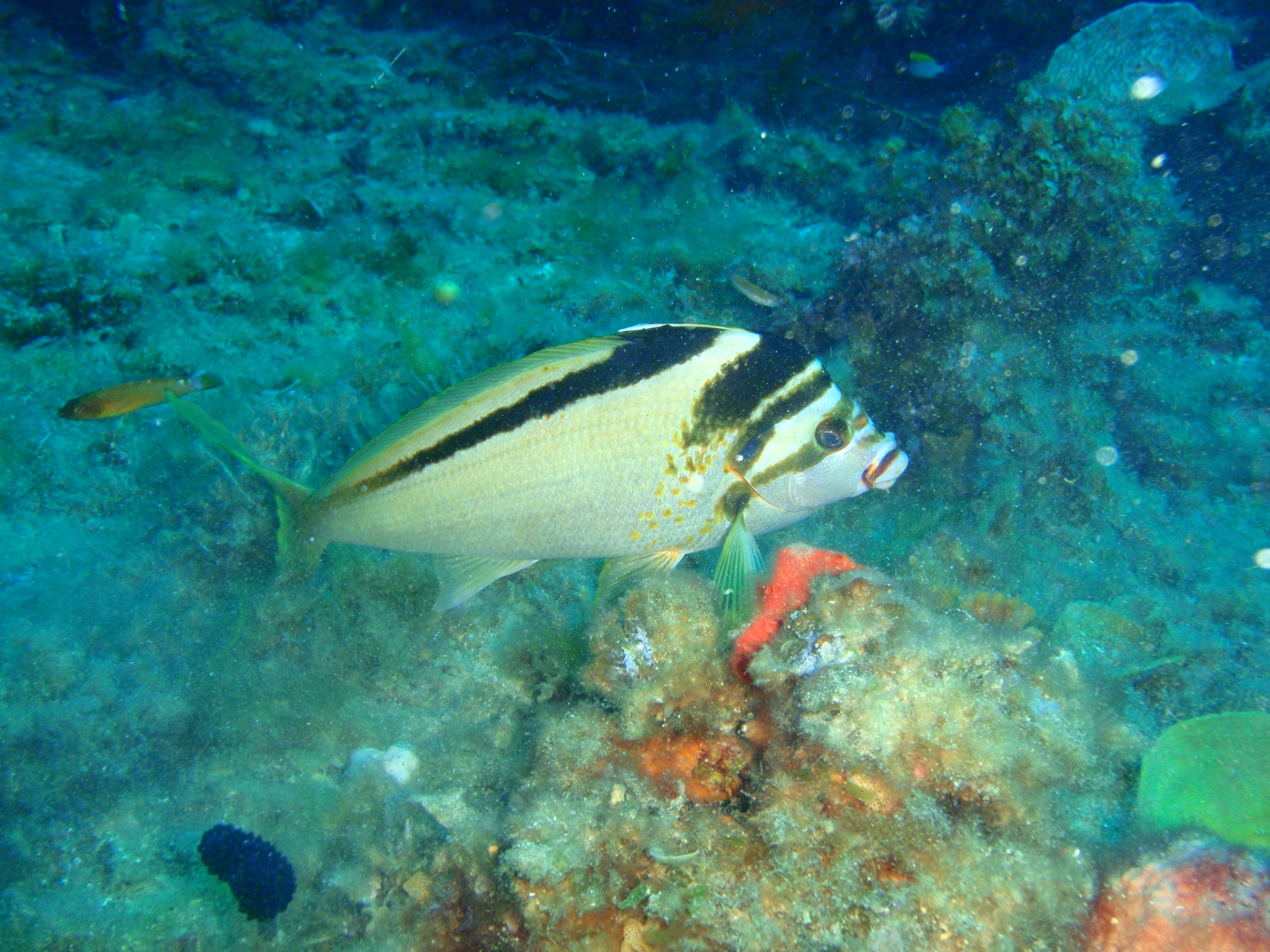 Western crested morwong Cheilodactylus gibbosus at the wreck of the Cheynes III in King George Sound, Western Australia